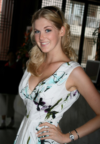 Miss Australia 2007 Caroline Pemberton in Miss World 07